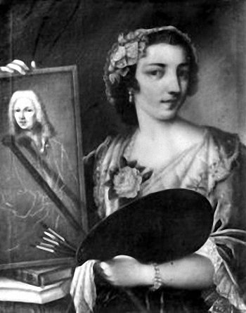 Self-portrait in Uffizi Gallery